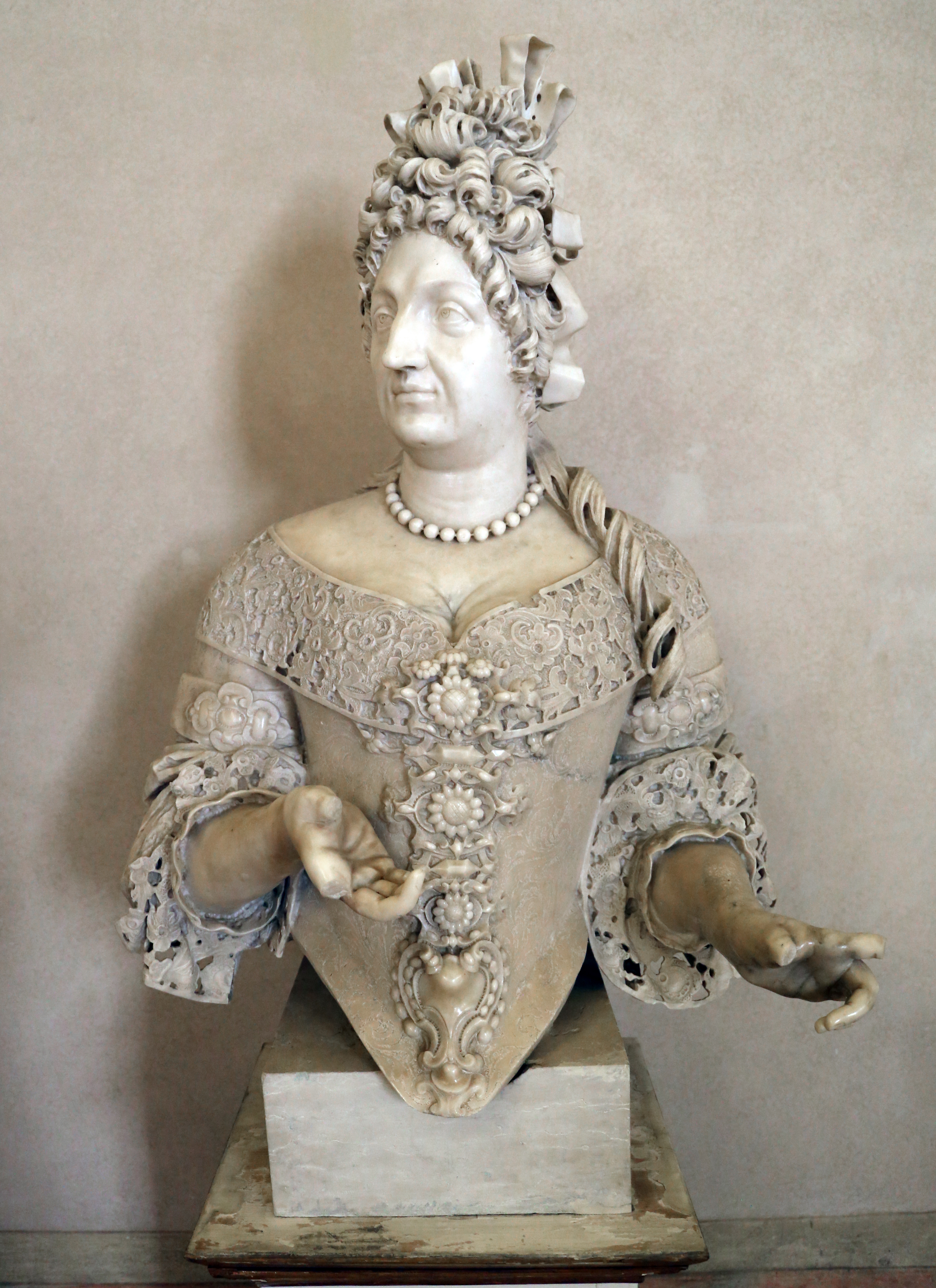 Collections of Palazzo Ducale (Mantua)